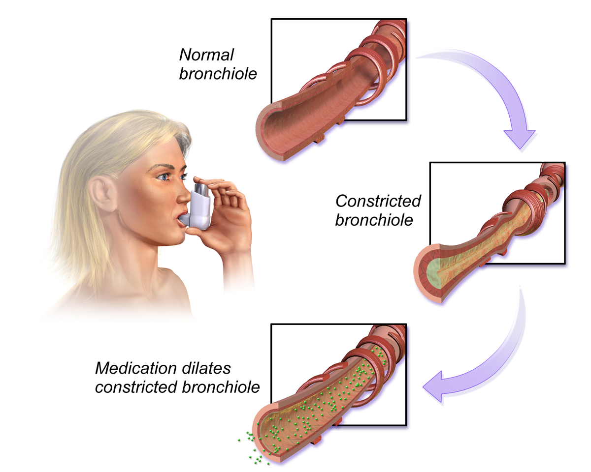 Bronchodilators. See a full animation of this medical topic.